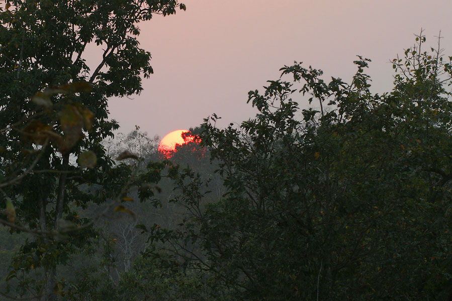 Sunset in Kinnerasani Wildlife Sanctuary, Andhra Pradesh, India.